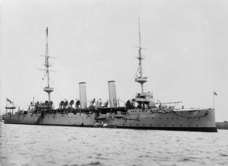 Photograph of British Eclipse class protected cruiser HMS Diana.